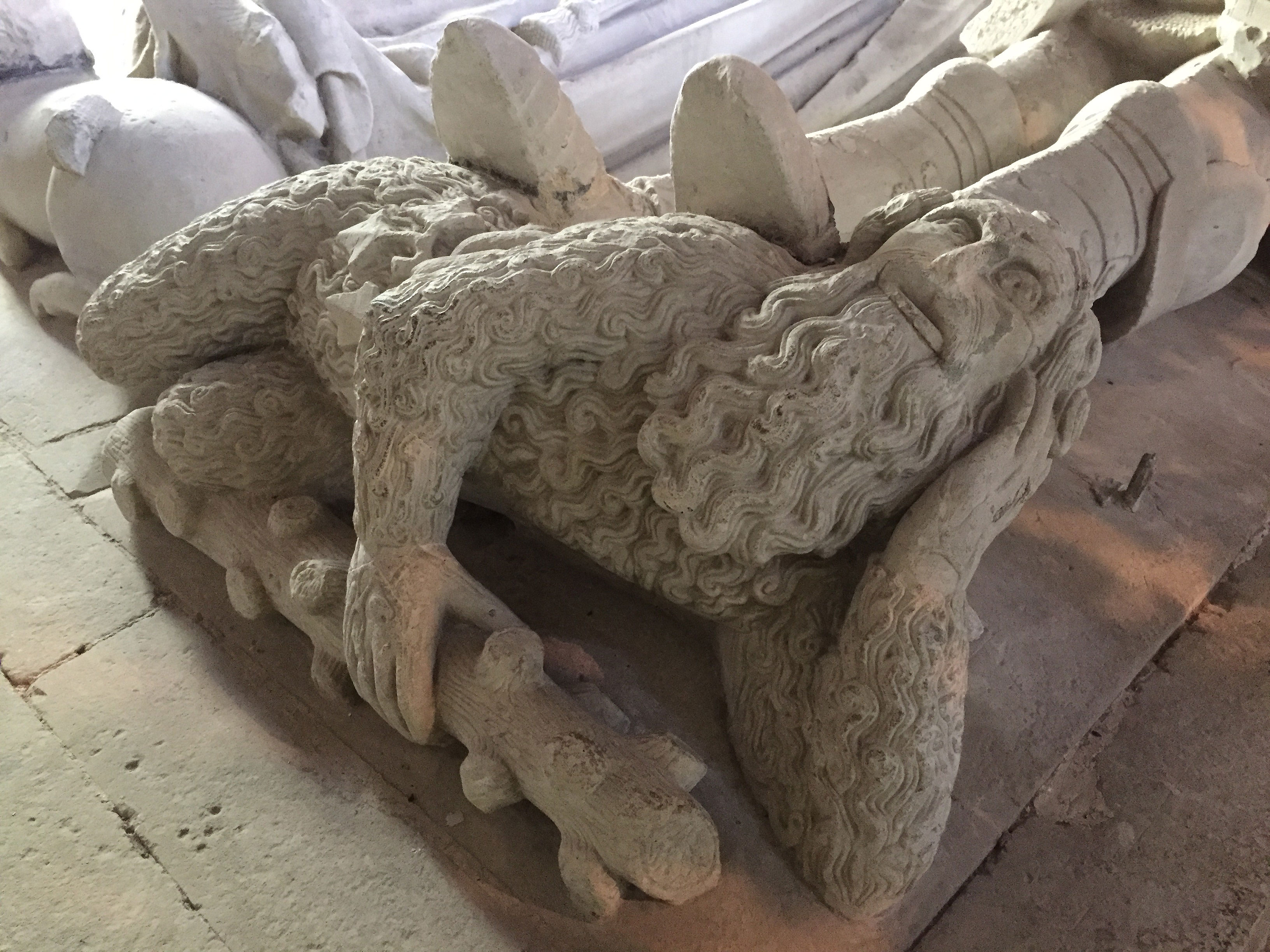 The Pendley Chapel, Church of St. John the Baptist, Aldbury, Hertfordshire - detail of the monument with recumbent effigy of Sir Robert Whittingham (d.1471) showing his feet resting on a reclining wild man covered in delicately sculpted curly hair and holding a "ragged staff" (as in the heraldic badge of the Earls of Warwick)